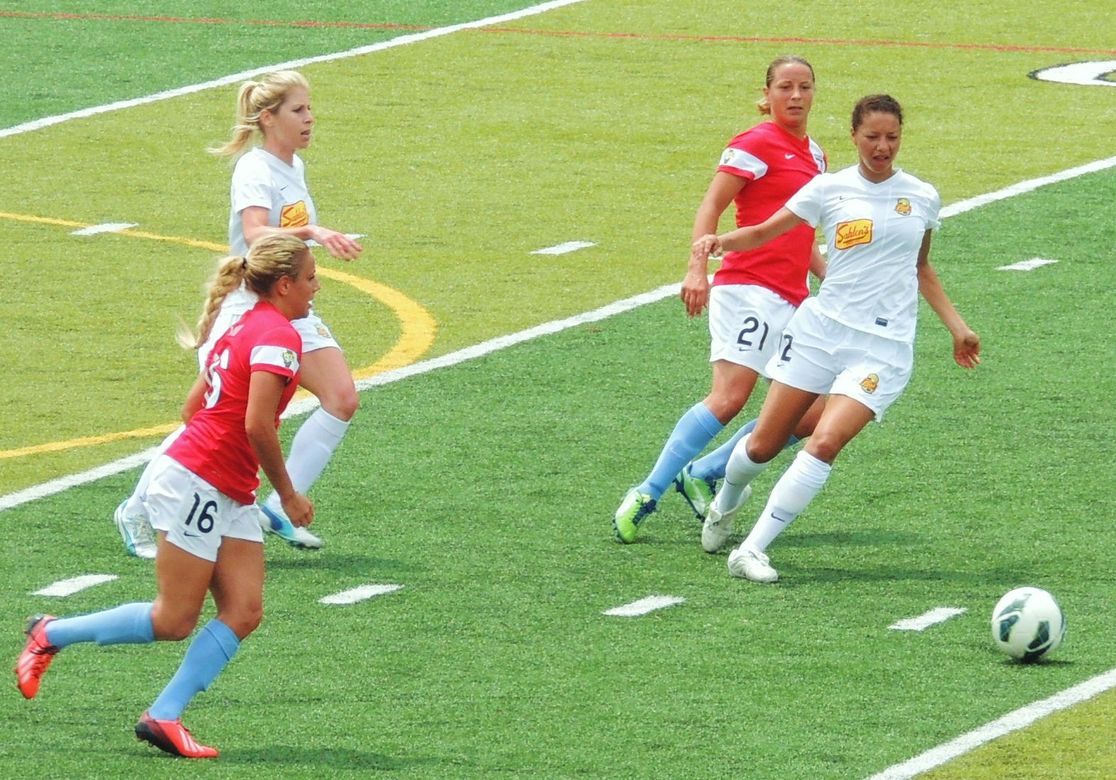 2013-07-04; Chicago Red Stars vs Western New York Flash. Left to right: Adriana Leon-16, McCall Zerboni-7, Inka Grings-21, Estelle Johnson-12